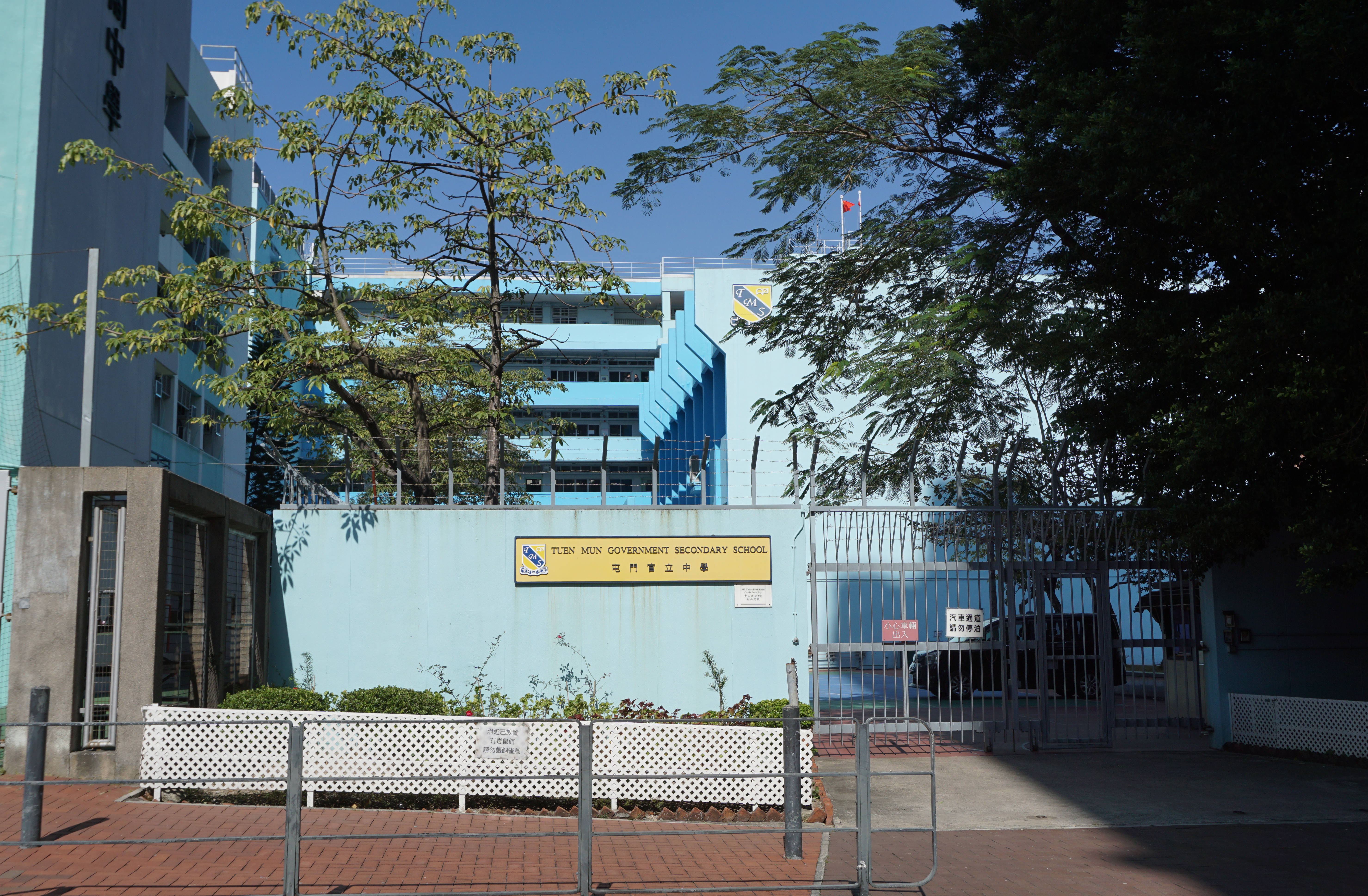 Government Secondary School in Tuen Mun, Hong Kong.